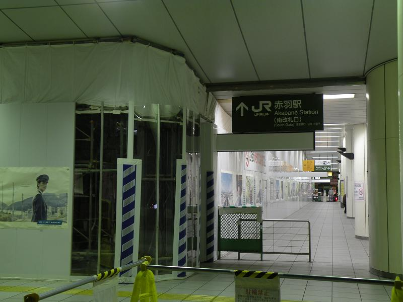 JR East Akabane Station south exit under construction